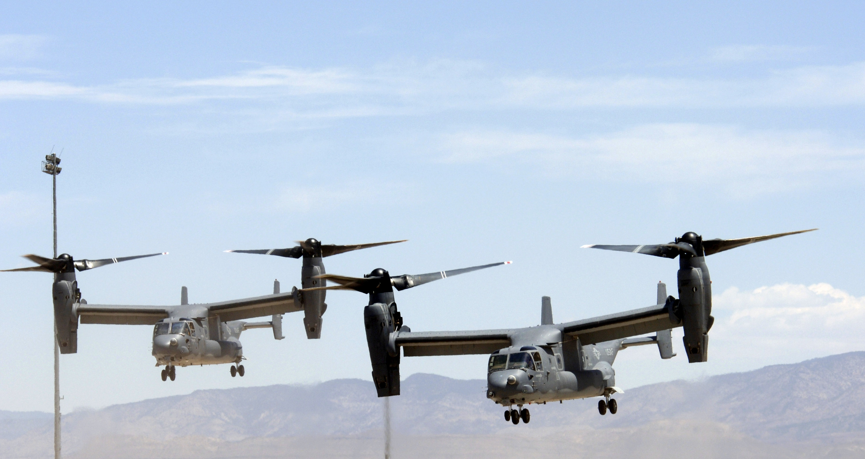 Two Air Force CV-22 Ospreys prepare to land at Holloman Air Force Base, N.M., on Friday, May 26, 2006. These Osprey are two of only three in the Air Force inventory at the time. The Ospreys and their crews are taking part in the filming of the movie, Transformers.""